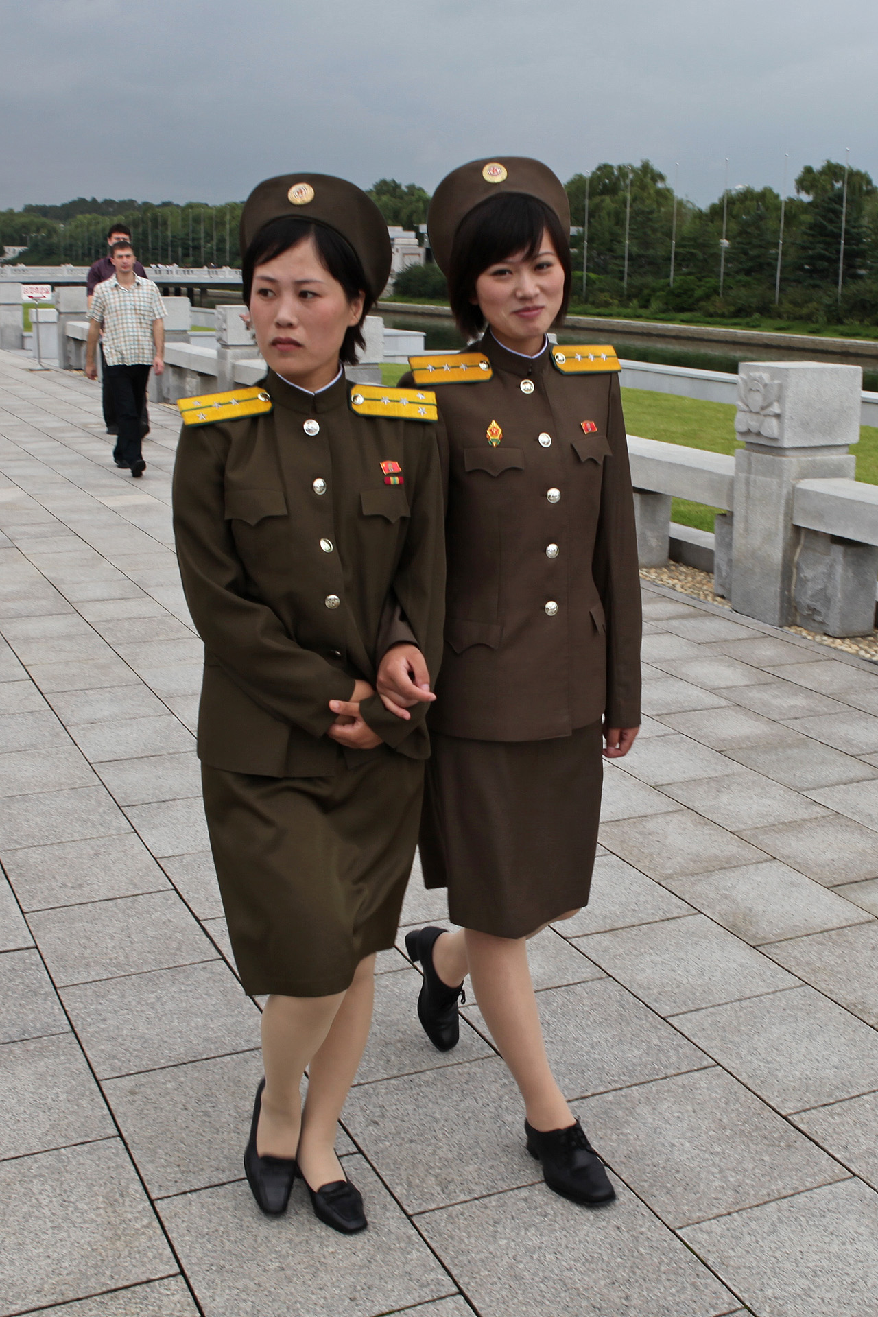 Nice contrast. Sometimes you get a smile, sometimes not. Sometimes both expressions in one picture.